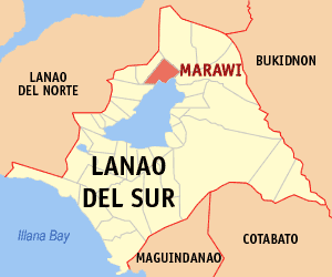 Map of the Lanao del Sur showing the location of Marawi City